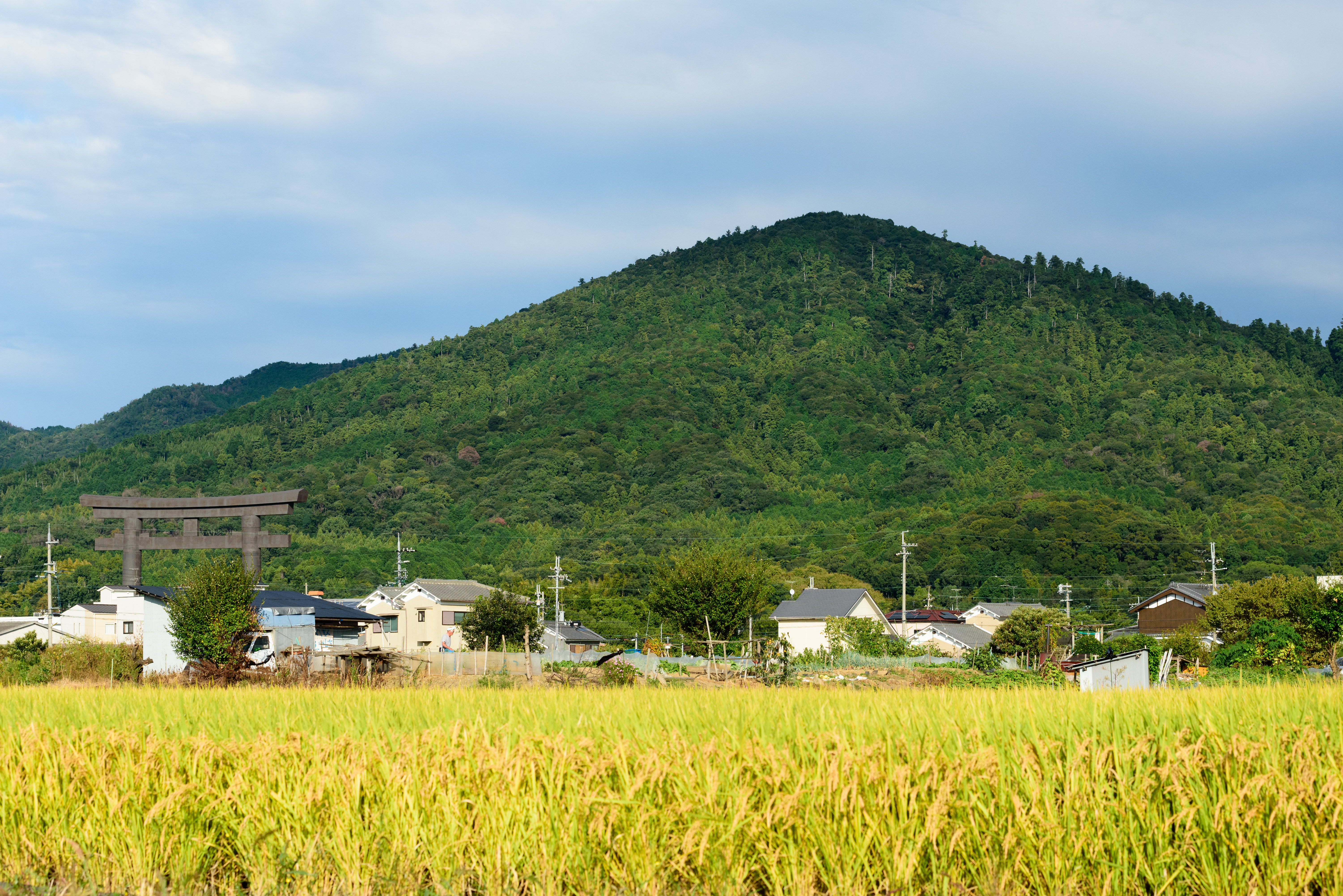 Mount Miwa (467 metres) from Miwa, Sakurai, Nara.